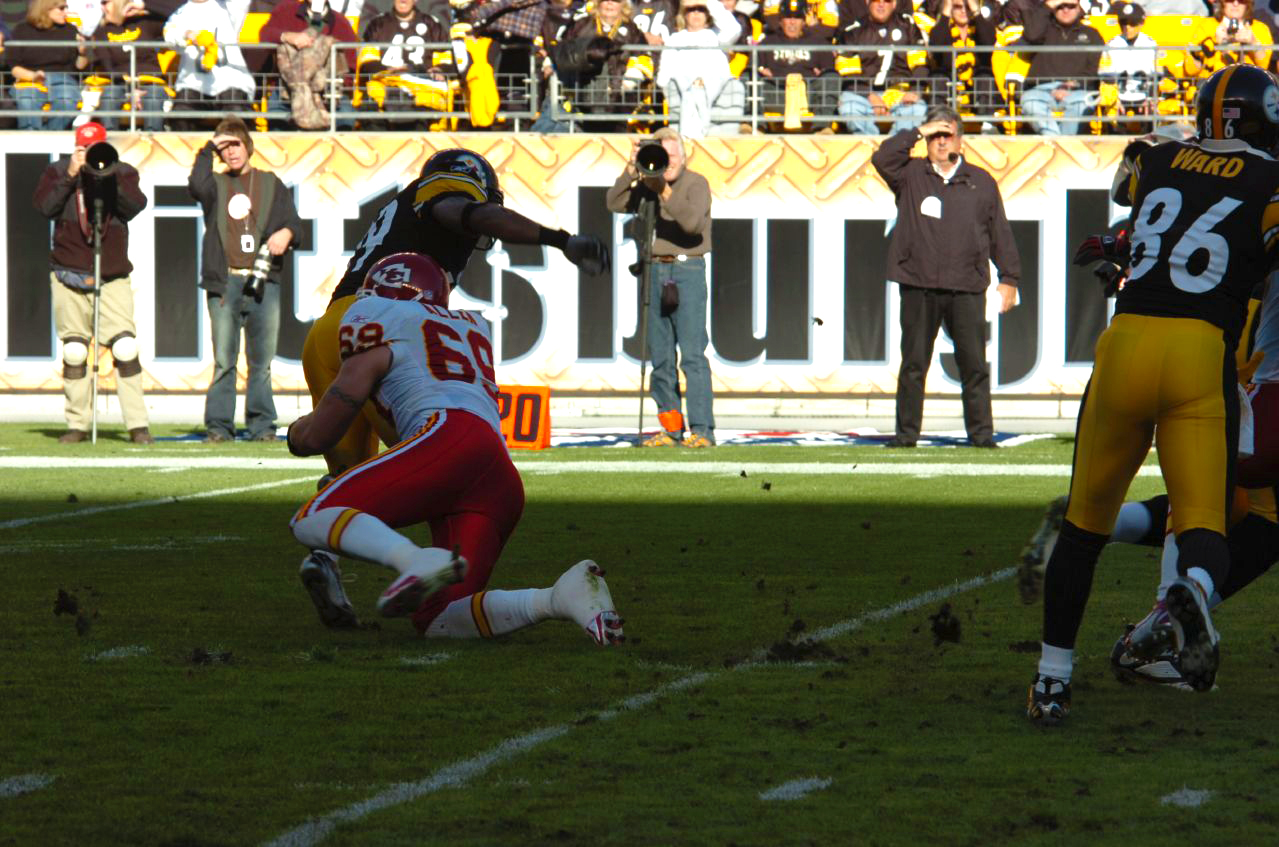 Kansas City Chiefs DE Jared Allen versus Pittsburgh Steelers in the 2006 regular season.